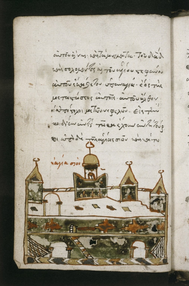 The Church of Zion. Description of Jerusalem. Miniatures from a Proskynetarion, a pilgrim’s guide book to the holy places in Jerusalem and Palestine. Shelfmark: MS. Canon. Gr. 127.